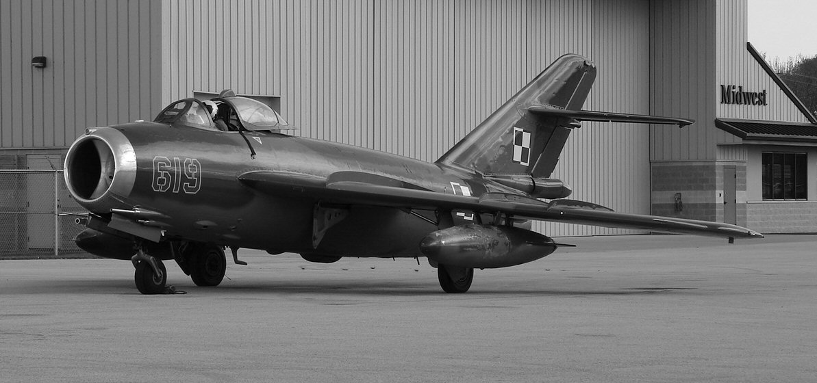 The classic mig in b/w